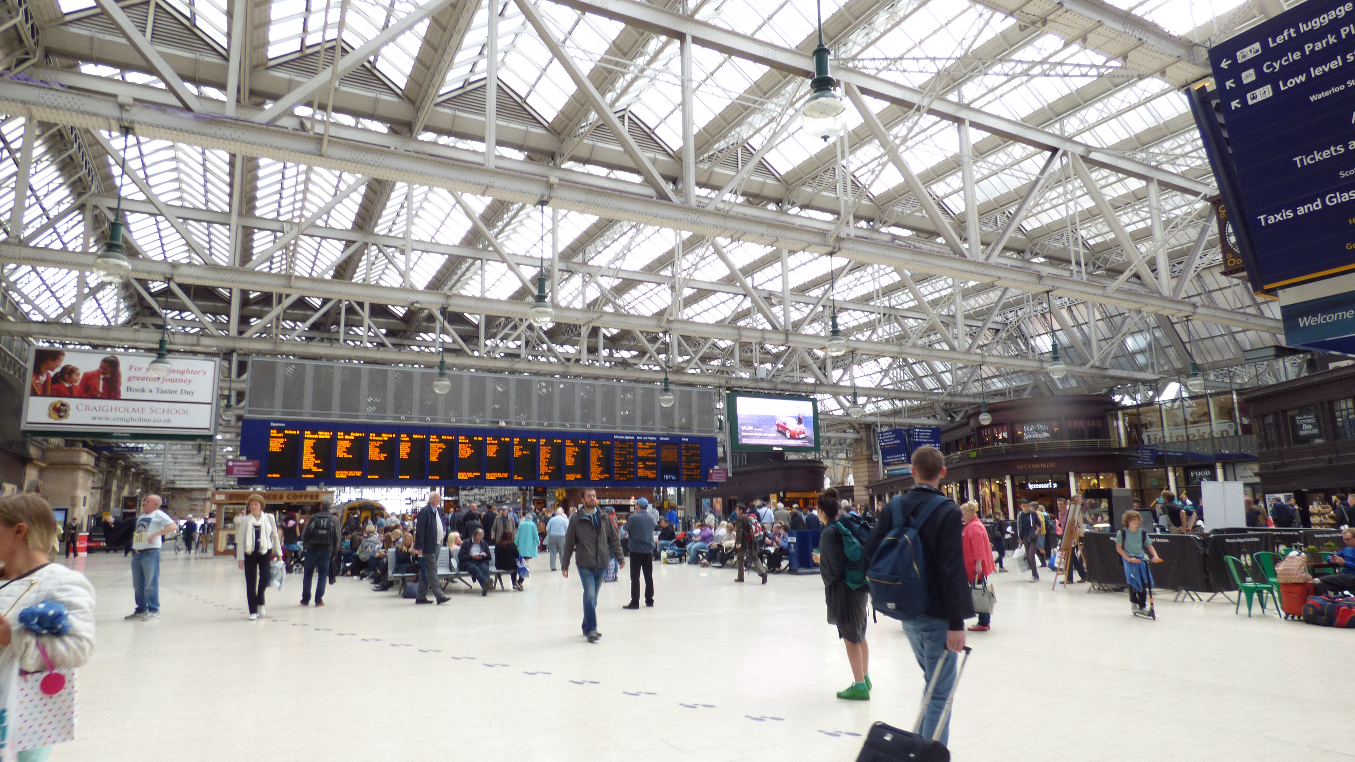 Here is the concourse at Glasgow Central Station, with the departure boards and the canopy visible.